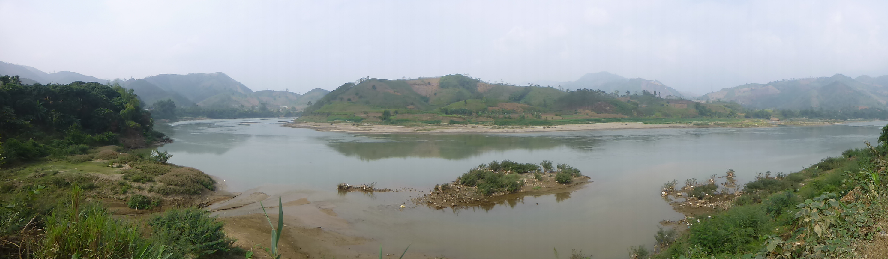 Rural scenery seen from Yên Bái provincial route 163, on the right bank of the Red River in Văn Yên District of Yên Bái Province (between the border with Lao Cai province and the Trái Hút bridge).